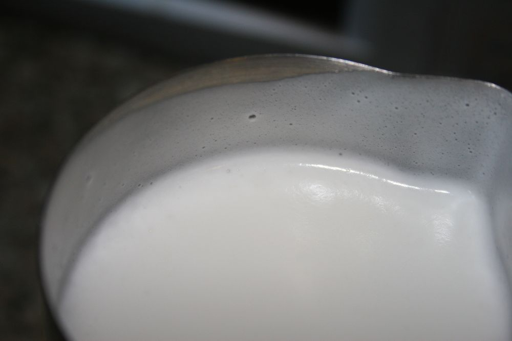 An example of properly texturized "microfoam" milk for use in latte art.